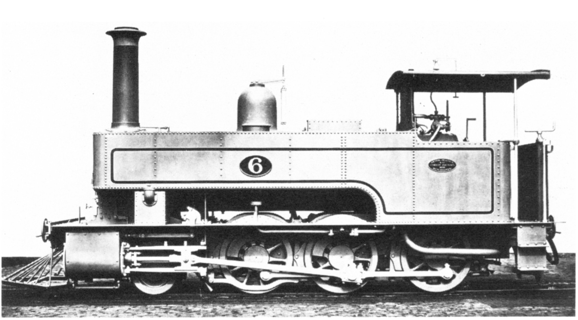 Natal Government Railways no. 6, 2-6-0T of 1877, as delivered